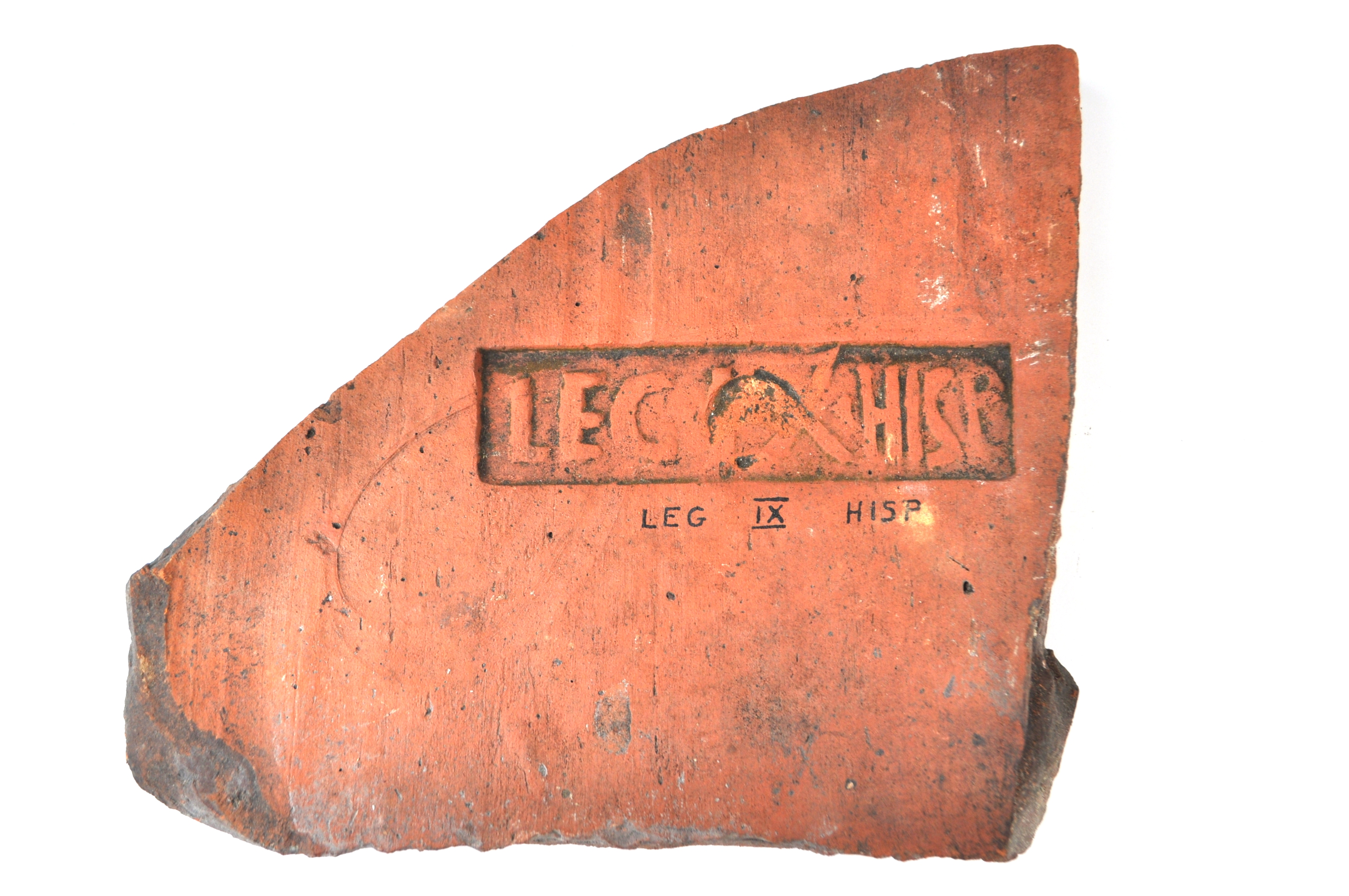 Roman tegula with Legio IX Hispana stamp (mislabelled on collections database)